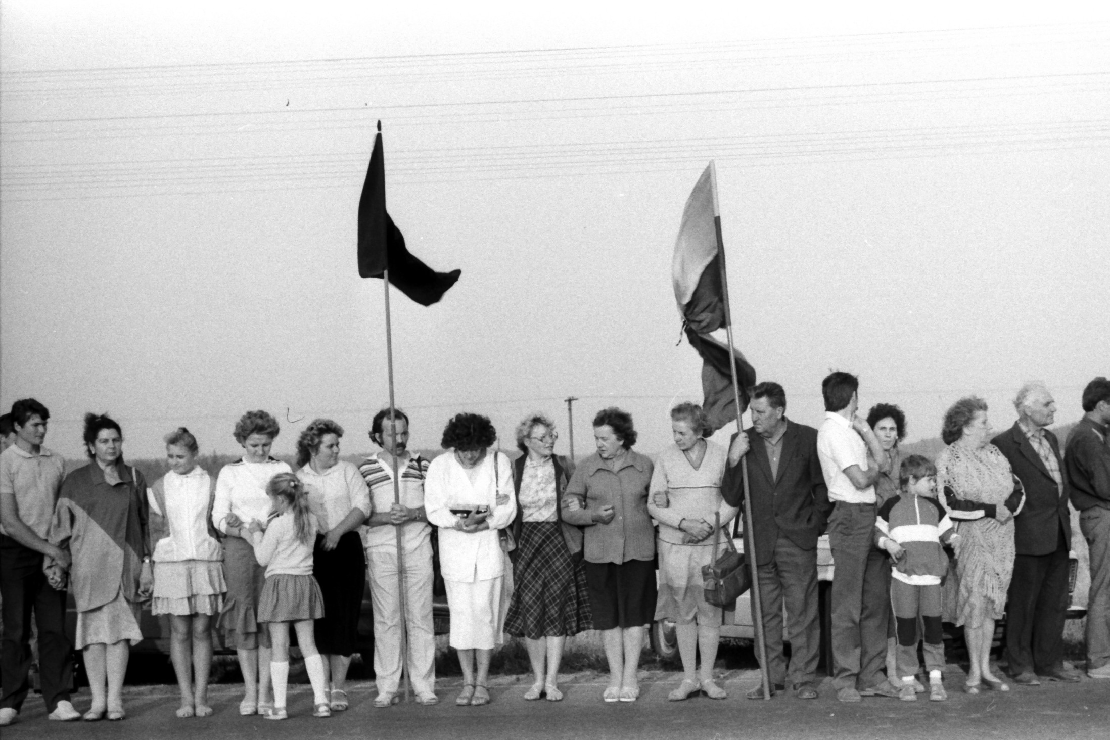 Baltic Way, 1989-08-23, Lithuania